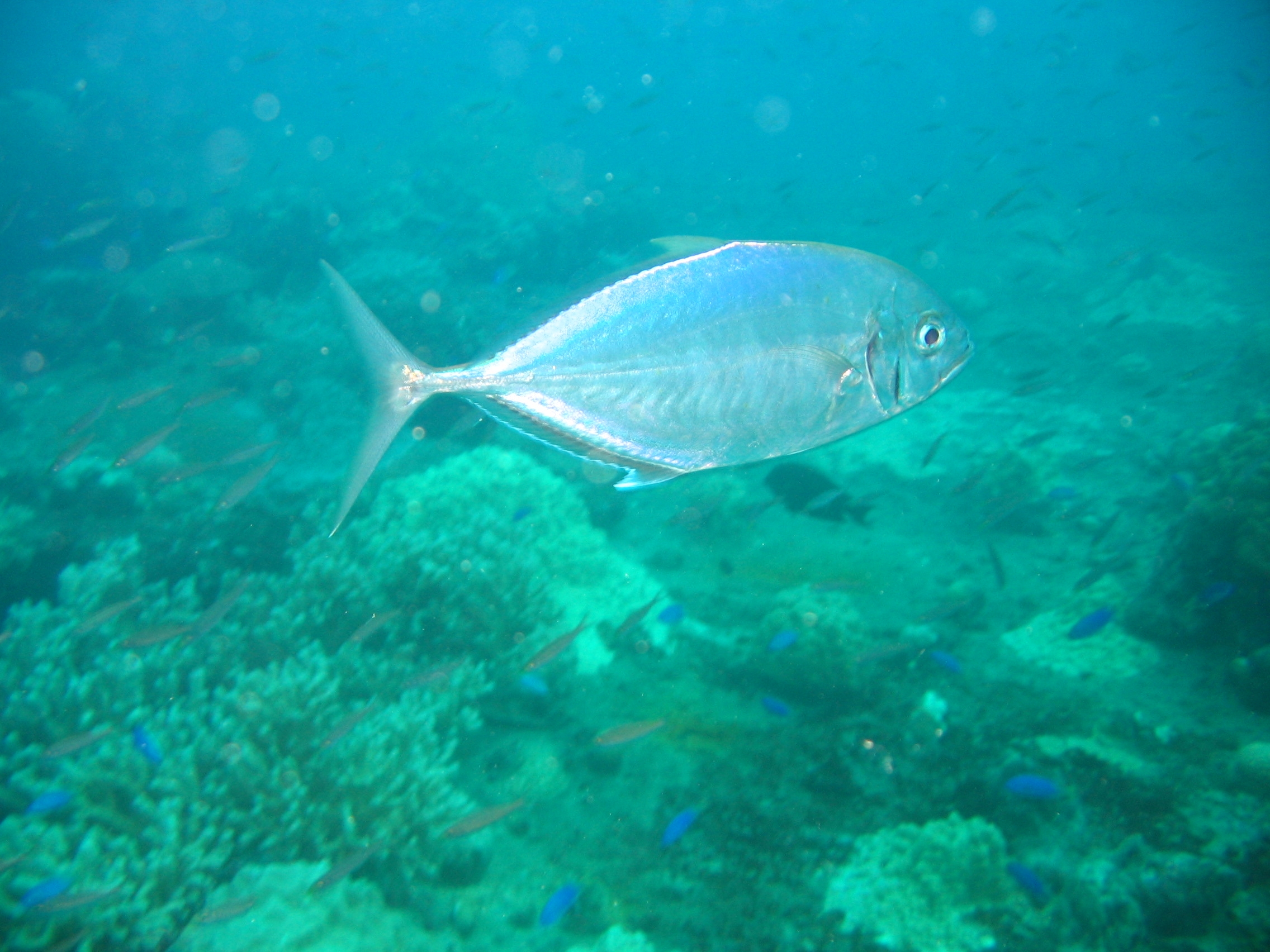 reef0553, NOAA's Coral Kingdom Collection. A blue trevally, Carangoides ferdau swimming midwater